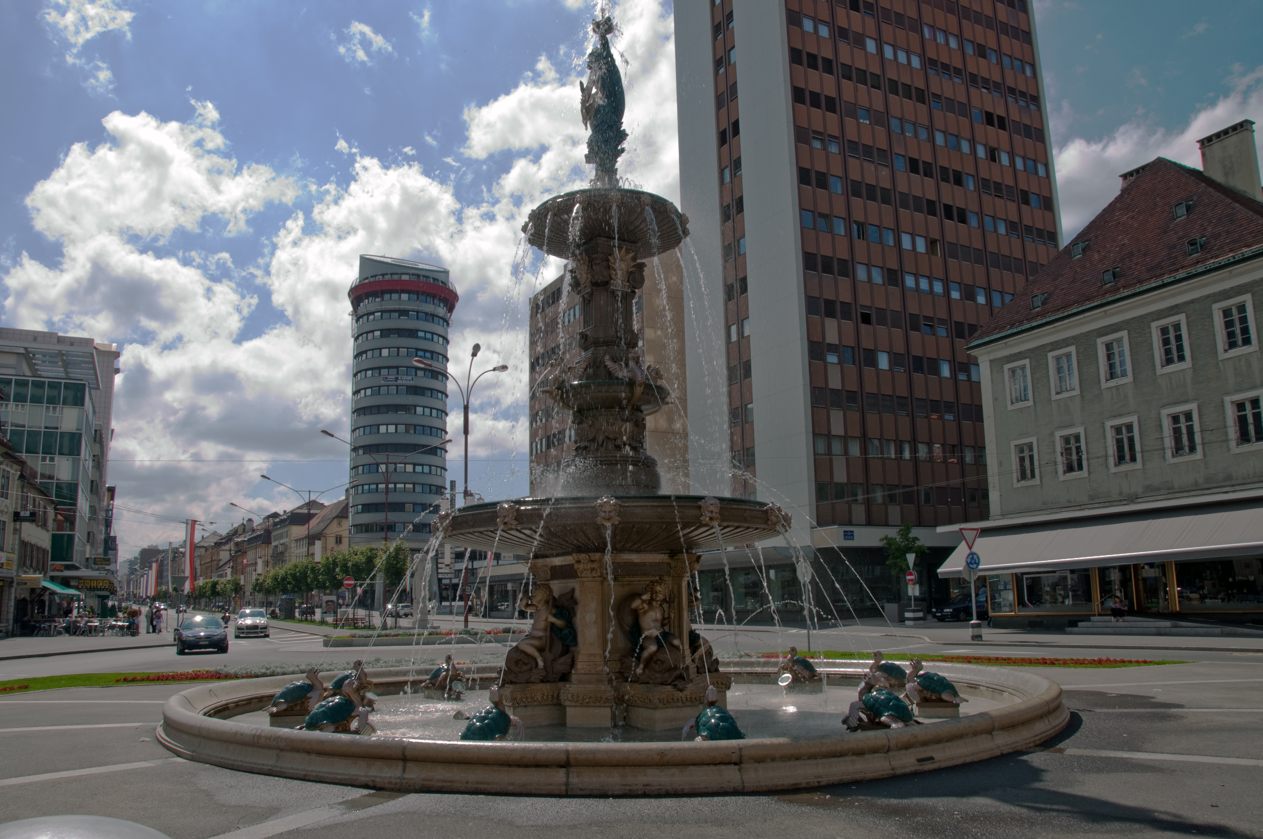 The Grande Fontaine in the town of La Chaux de Fonds, Switzerland